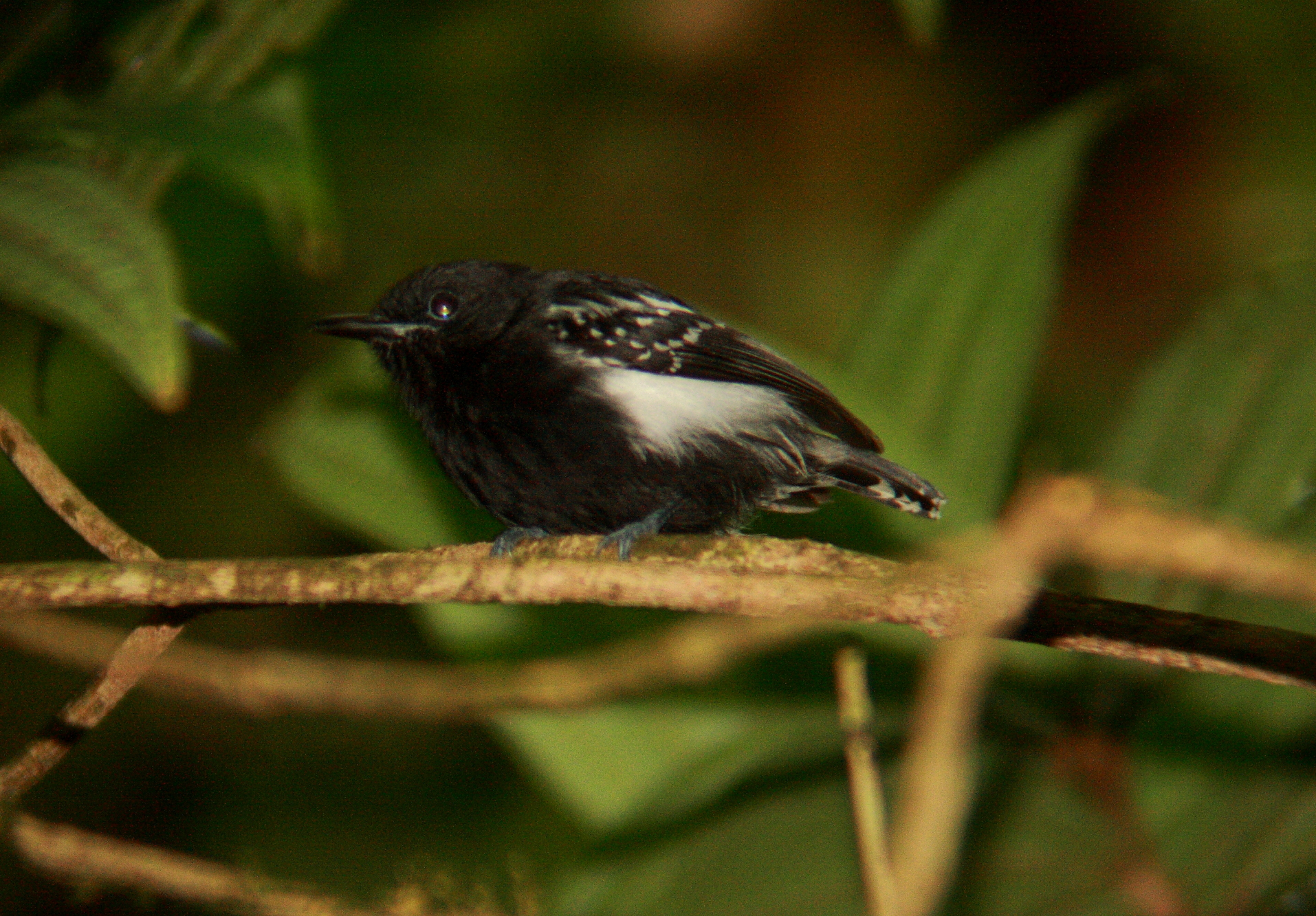 Myrmotherula axillaris